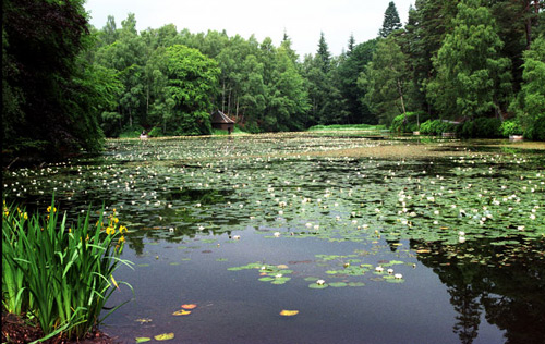 Tranquil Loch Dunmore. A "Jewel" just off the hectic A9, north of Pitlochry